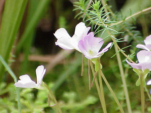 Species: Pinguicula ehlersiae Family: Lentibulaceae Image No. 1